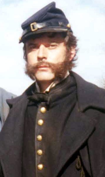 BOLLING AIR FORCE BASE, D.C. -- Master Sgt. Jari Villanueva of the U.S. Air Force Band (left) stands with actor C. Thomas Howell on the set of "Gods and Generals.